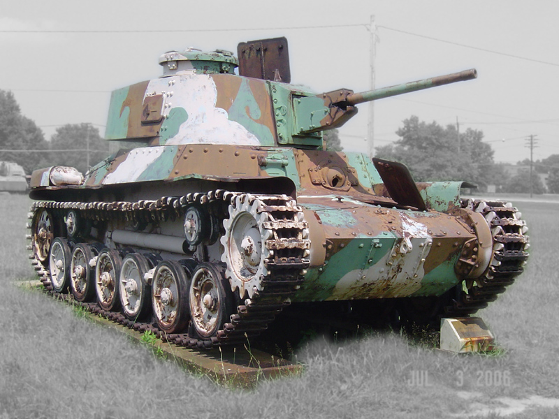 Type 97 Shinhoto Chi-Ha on display at the US Army Ordnance Museum in Aberdeen. The picture taken July 3, 2006.